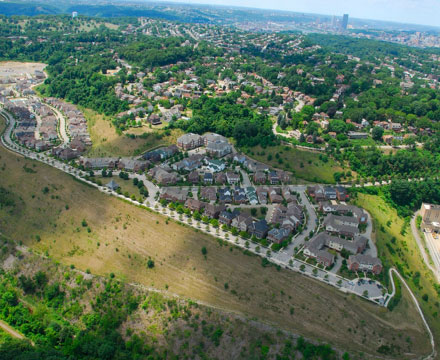 Arial view of Summerset at Frick Park, which sits on a brownfield site. Creative Commons Attribution 3.0